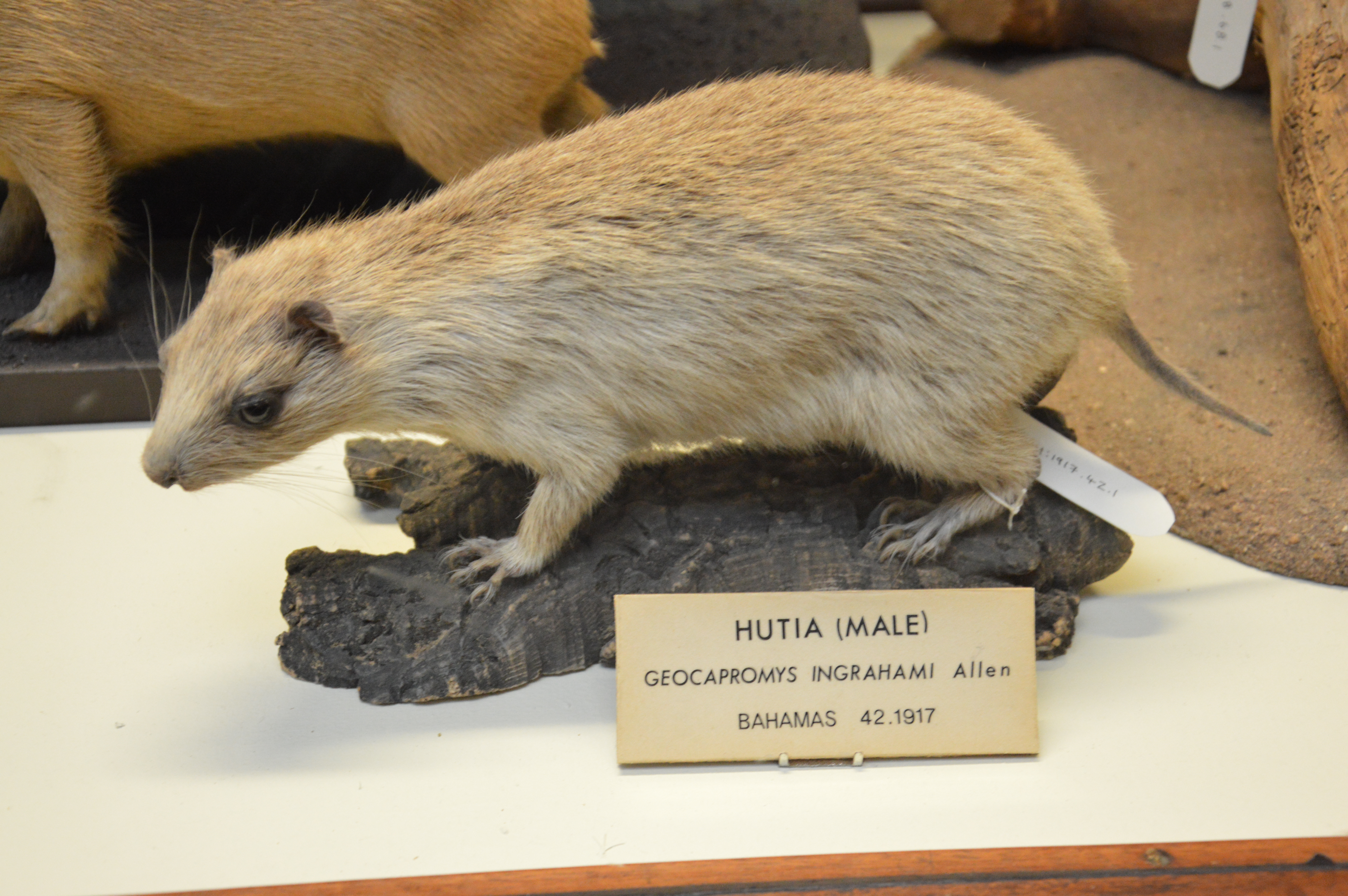 Bahamian hutia or Ingraham's hutia (Geocapromys ingrahami) at the Natural History Museum (National Museum of Ireland) in Dublin.